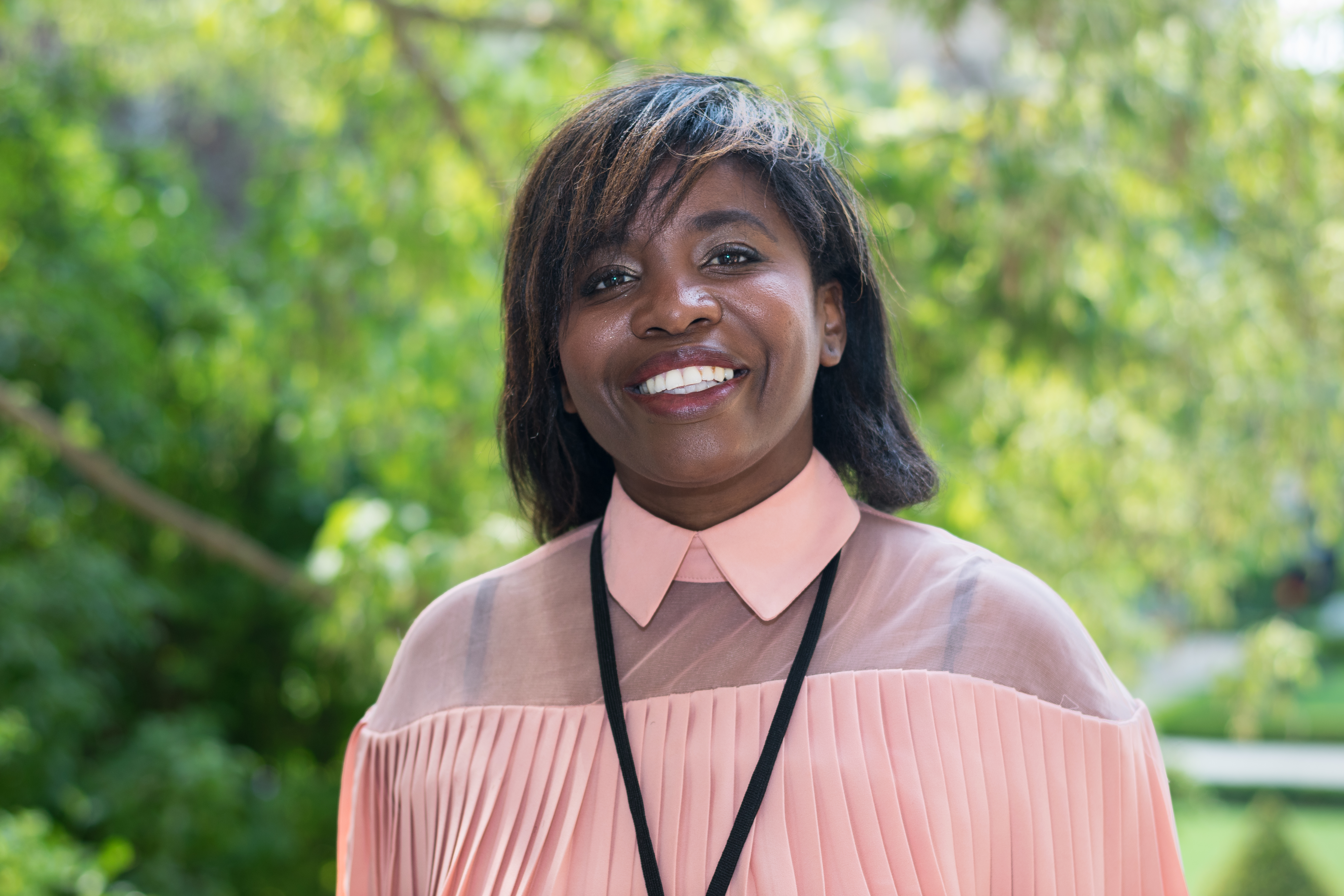 Justine Bénin in the garden of the Quatres Colonnes in the Palais Bourbon (Paris, France).